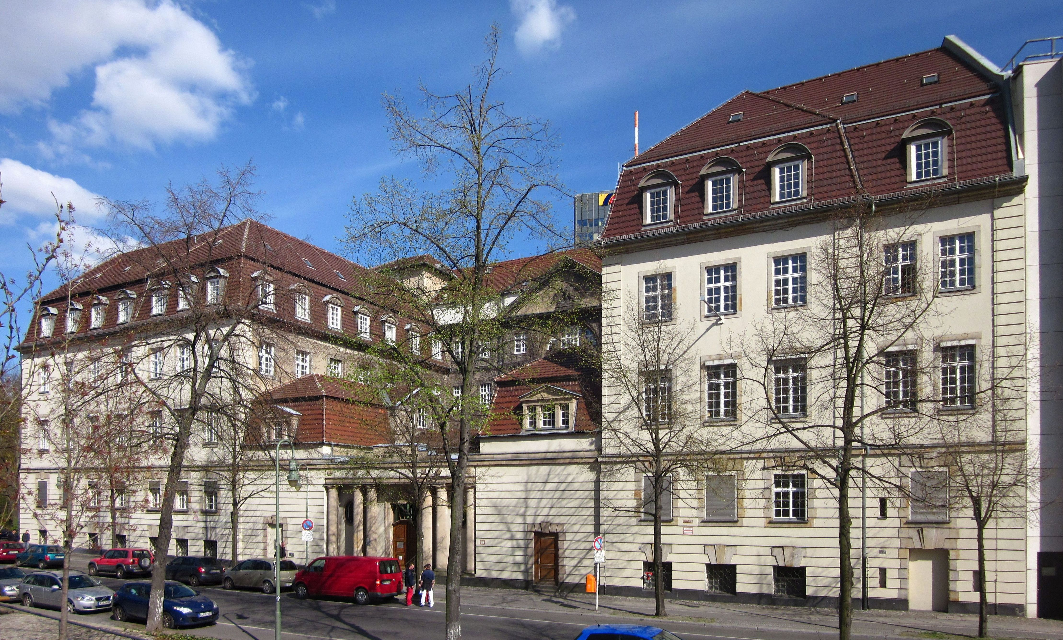 Old building of the District Court (Amtsgericht) Tempelhof-Kreuzberg at Möckernstraße 128/130 in Berlin-Kreuzberg. The building was constructed from 1915 to 1921 to a design by the archtitecs Erich Meffer and Ernst Petersen as enlargement of the Land- and Amtsgericht II. The building has been designated a historic landmark.